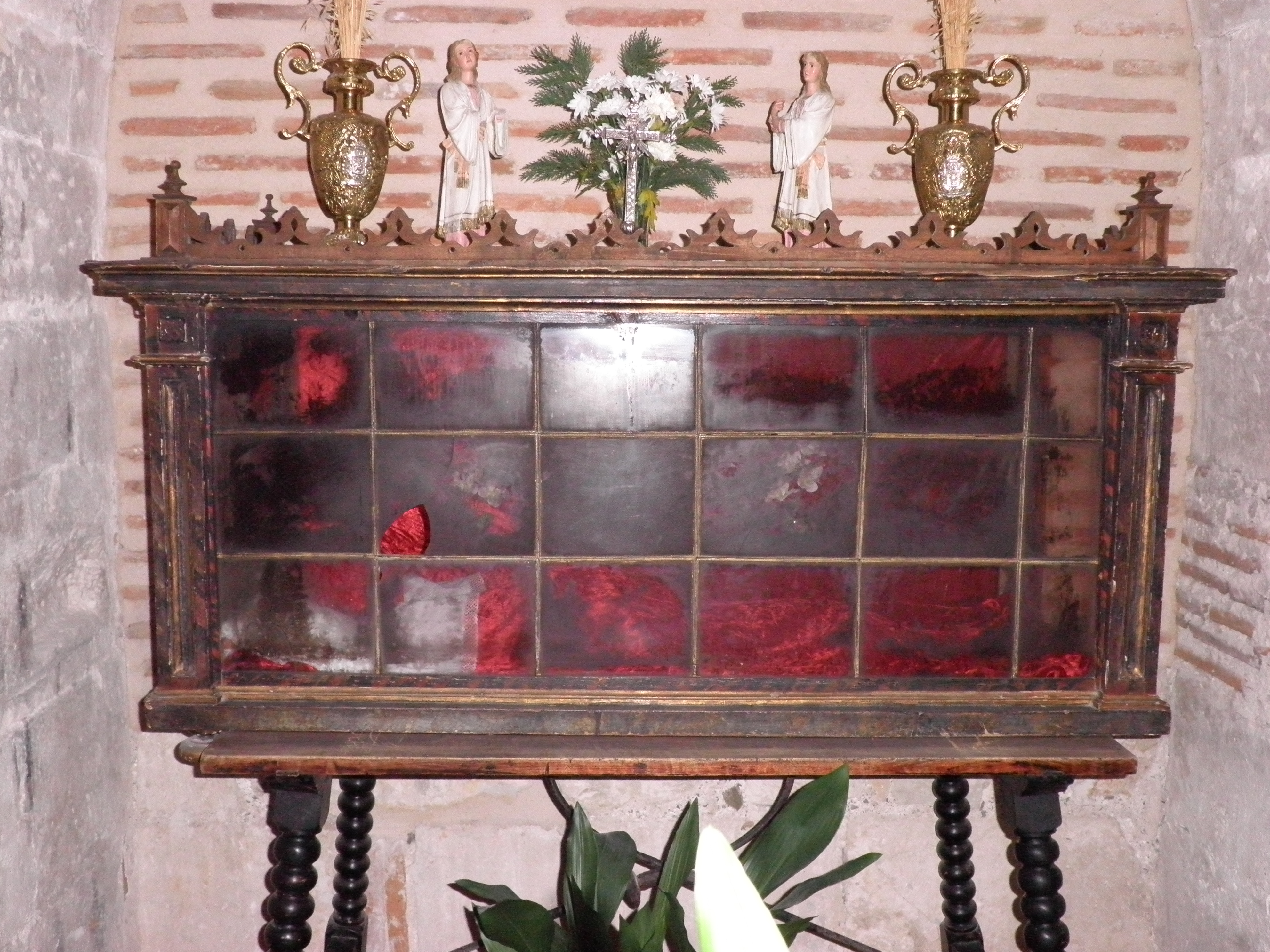 Glass coffin of the shepherd who found the Soterraña Virgin, inside of the church.